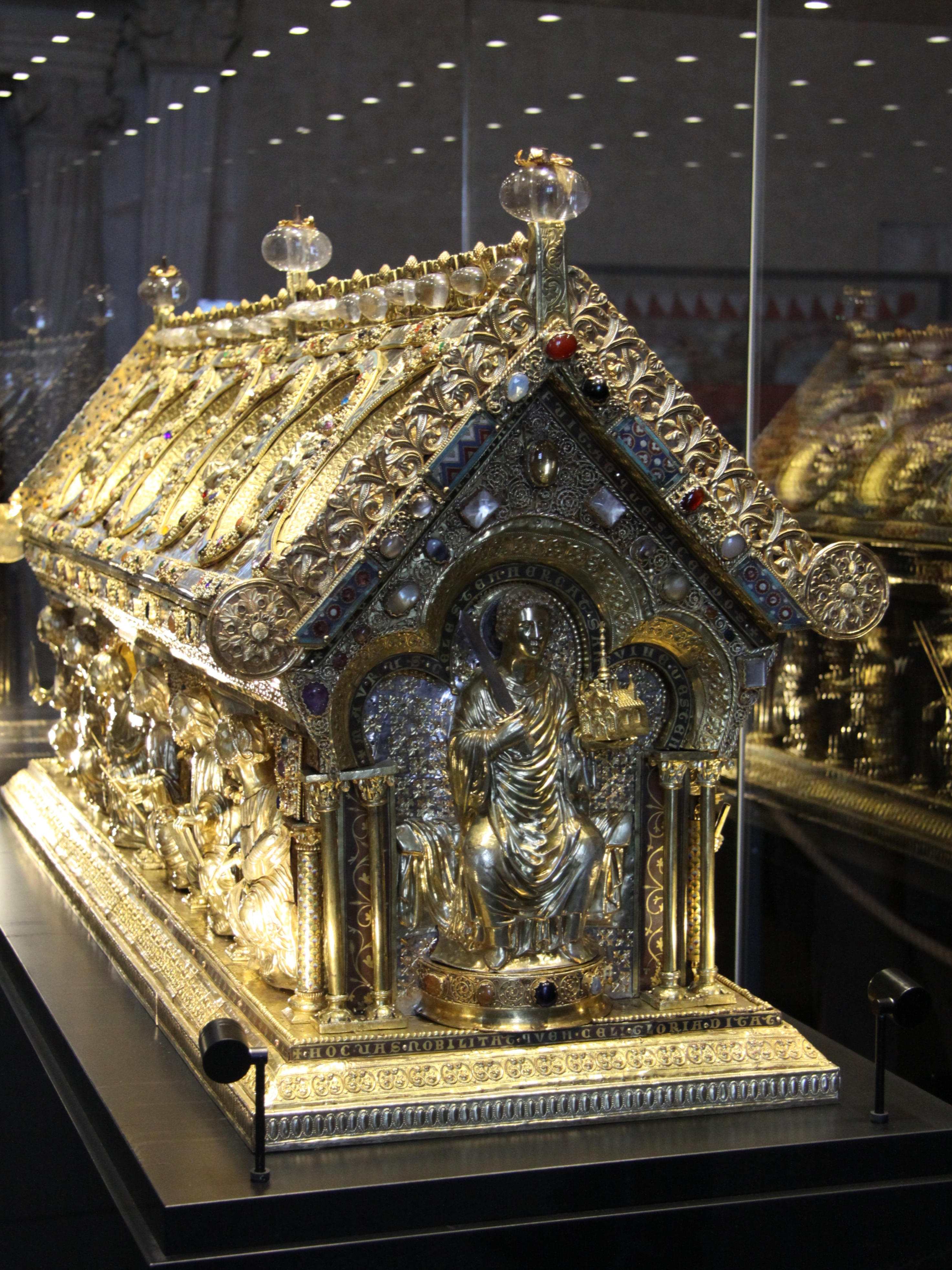 Reliquary of St. Maurus from the 2010 exhibition in Prague Castle